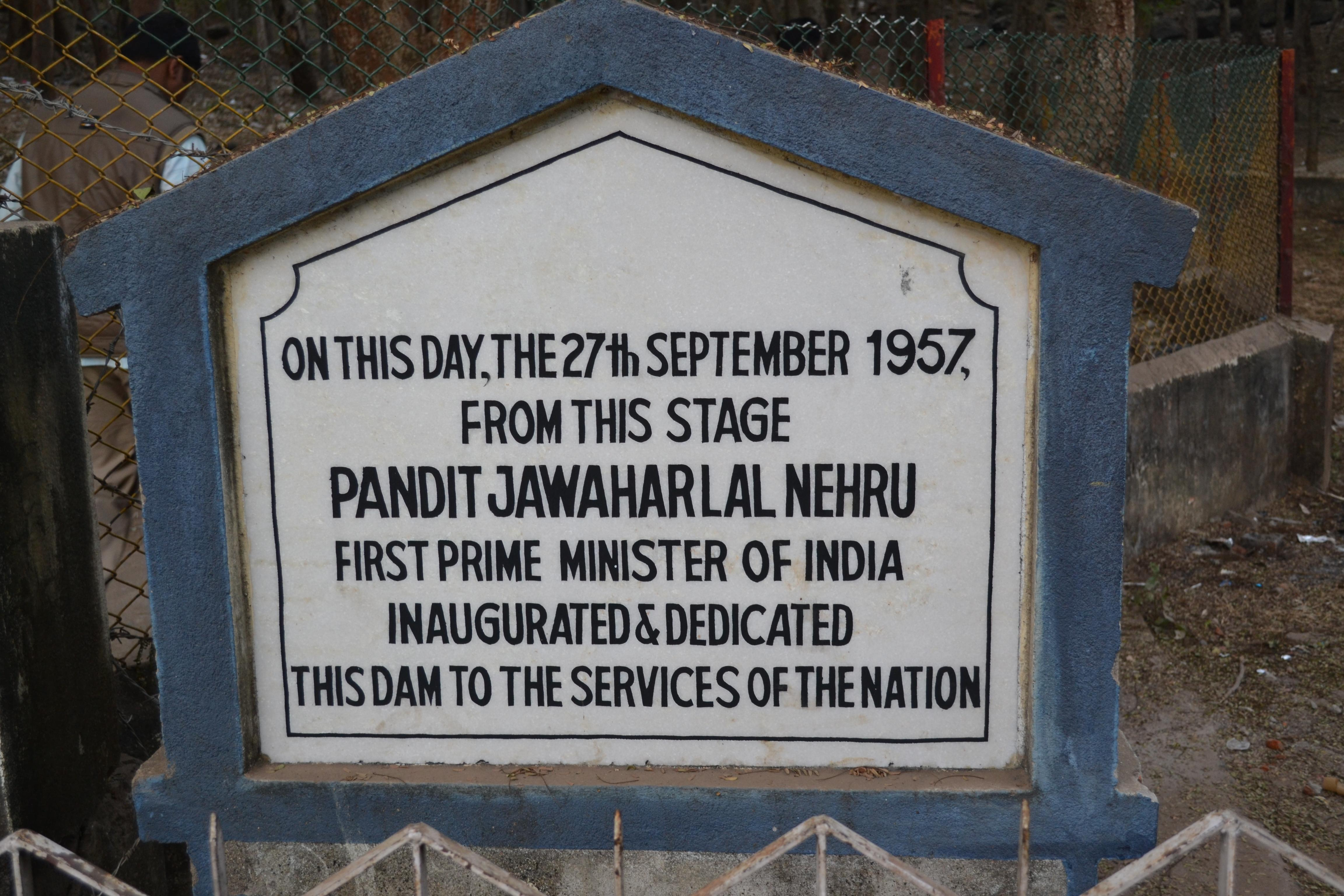 Foundation stone of maithon dam led by first prime minister of india in 1957.